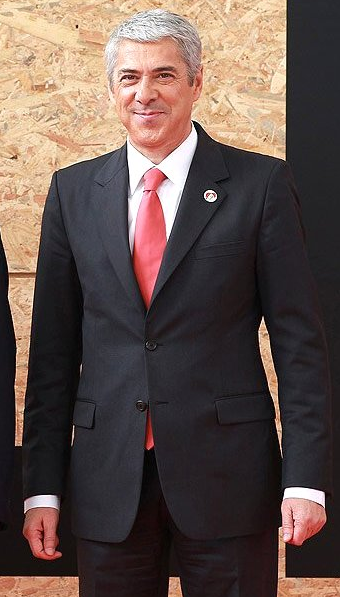 Before the meeting of the NATO-Russia Council, Prime Minister of Portugal José Socrates.